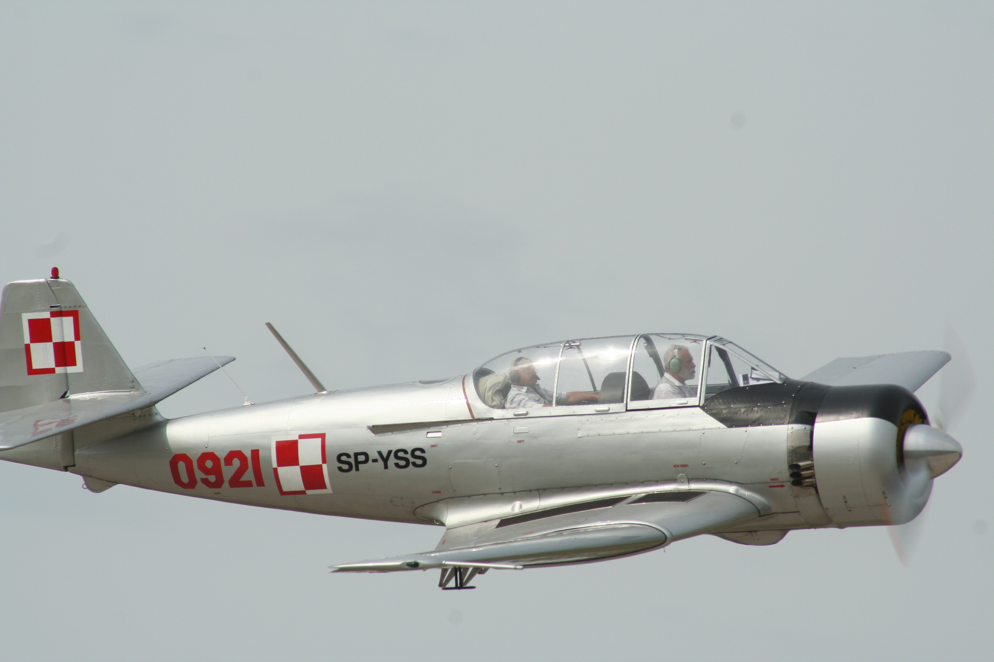 Military Polish aircraft PZL TS-8 Bies (SP-YSS / 0921) at AirShow in Cracow